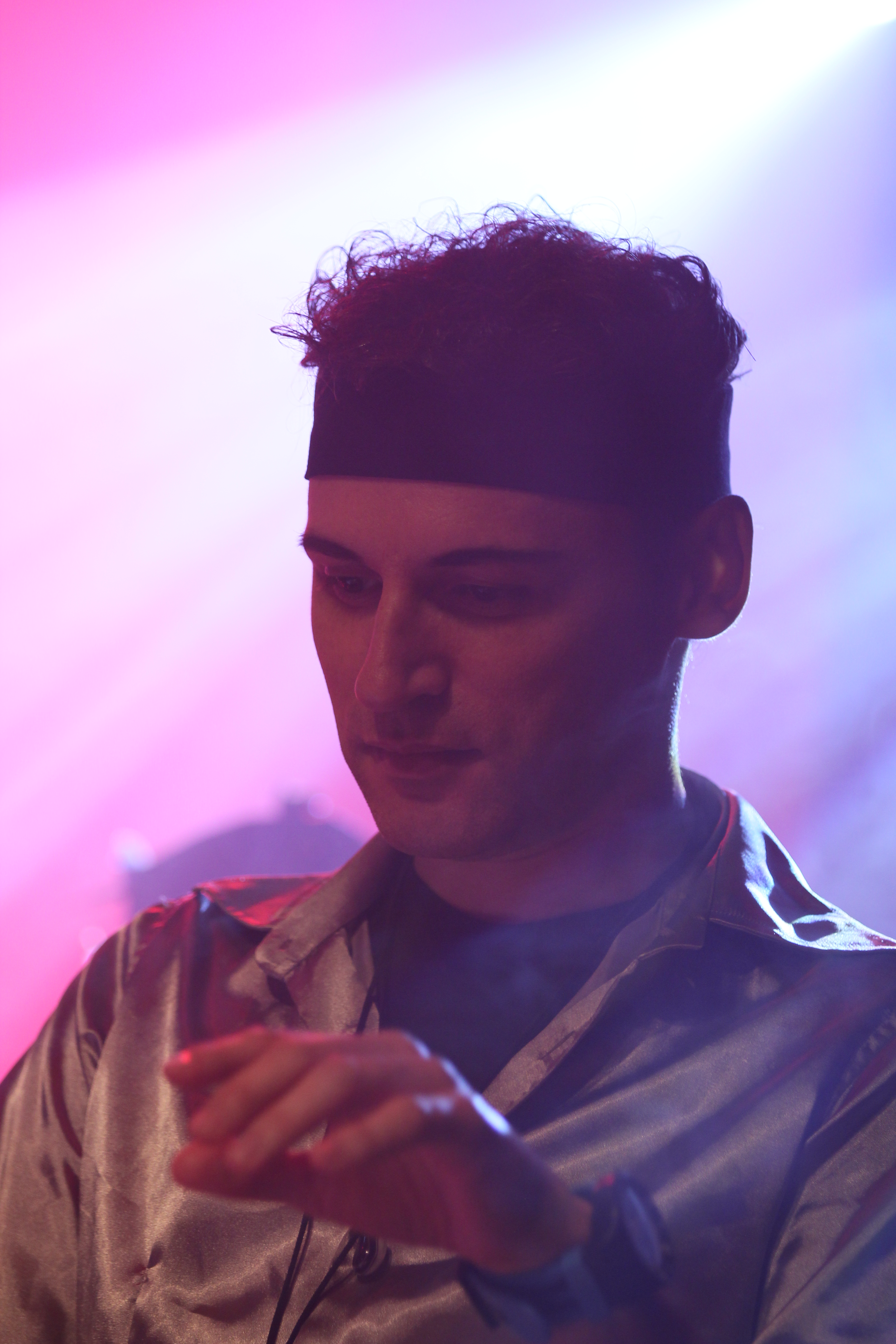 The Italian neo-classic dark wave band Ataraxia at the Nocturnal Culture Night 9 2014 in Deutzen/Germany